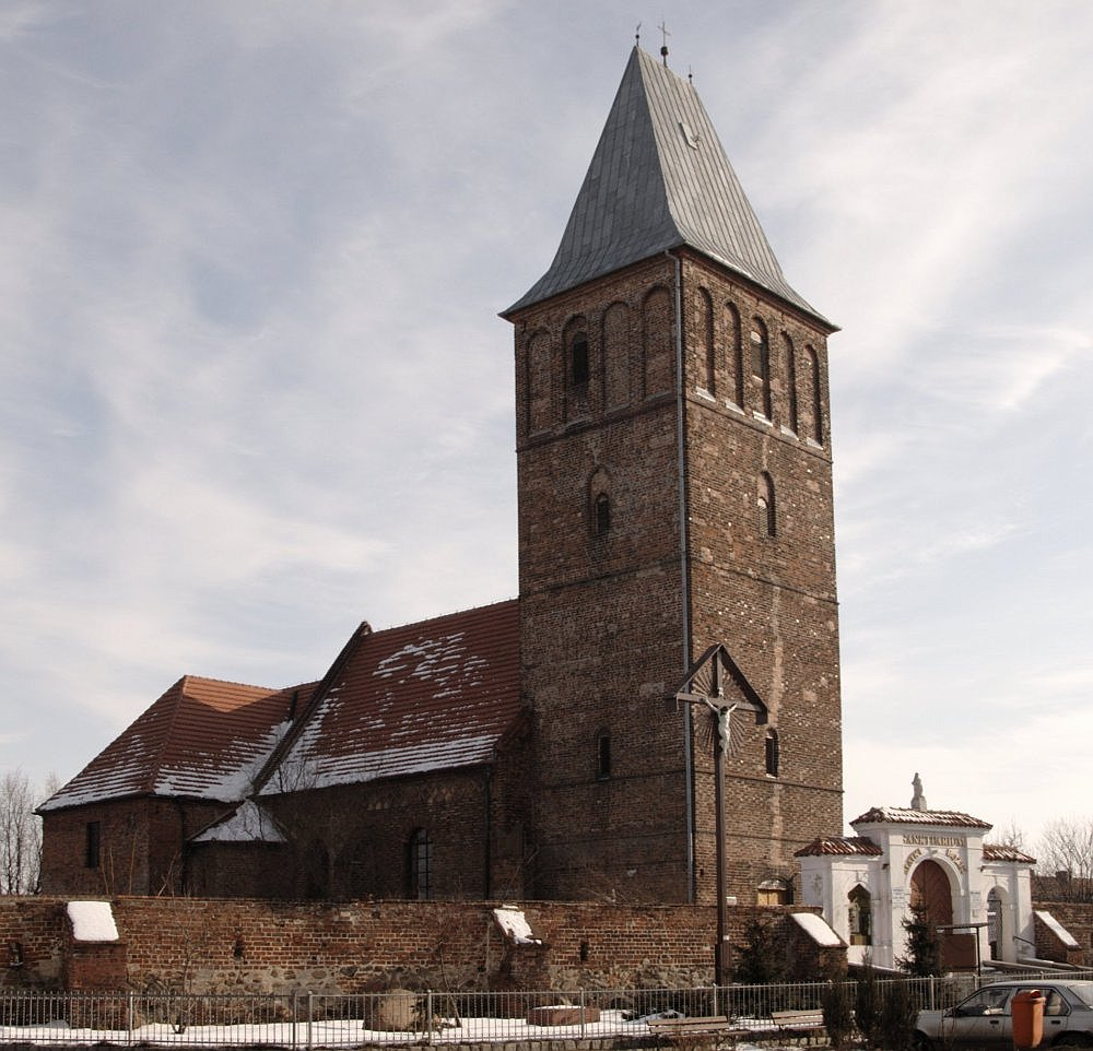 Saint Catherine of Alexandria Church in Święta Katarzyna, Lower Silesia, Poland. Lens: Pentax SMC-DA 18 55 MM F/3.5 5.6 AL